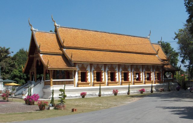 Outside of bot at Wat Kuu Kham taken by user:KayEss